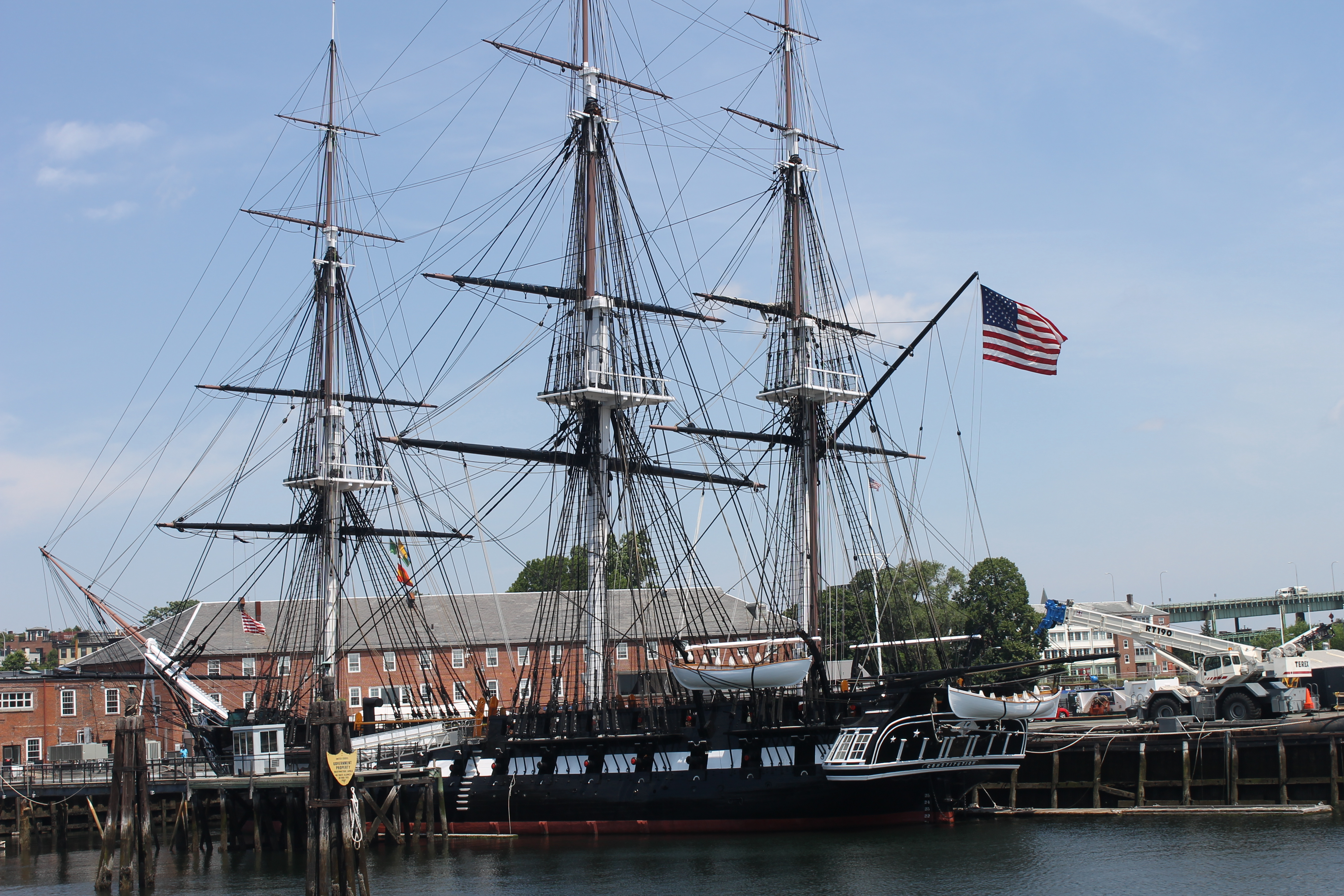 I took photo of Old Ironsides in Boston Harbor with Canon camera.